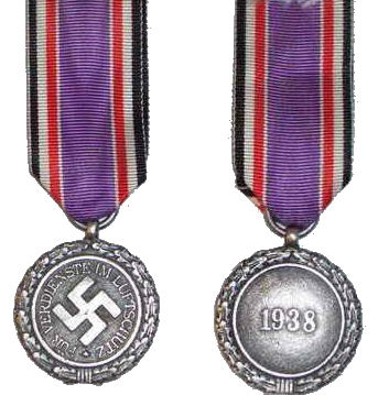 German Civil Air defense Honor Decoration 2nd Class 1938